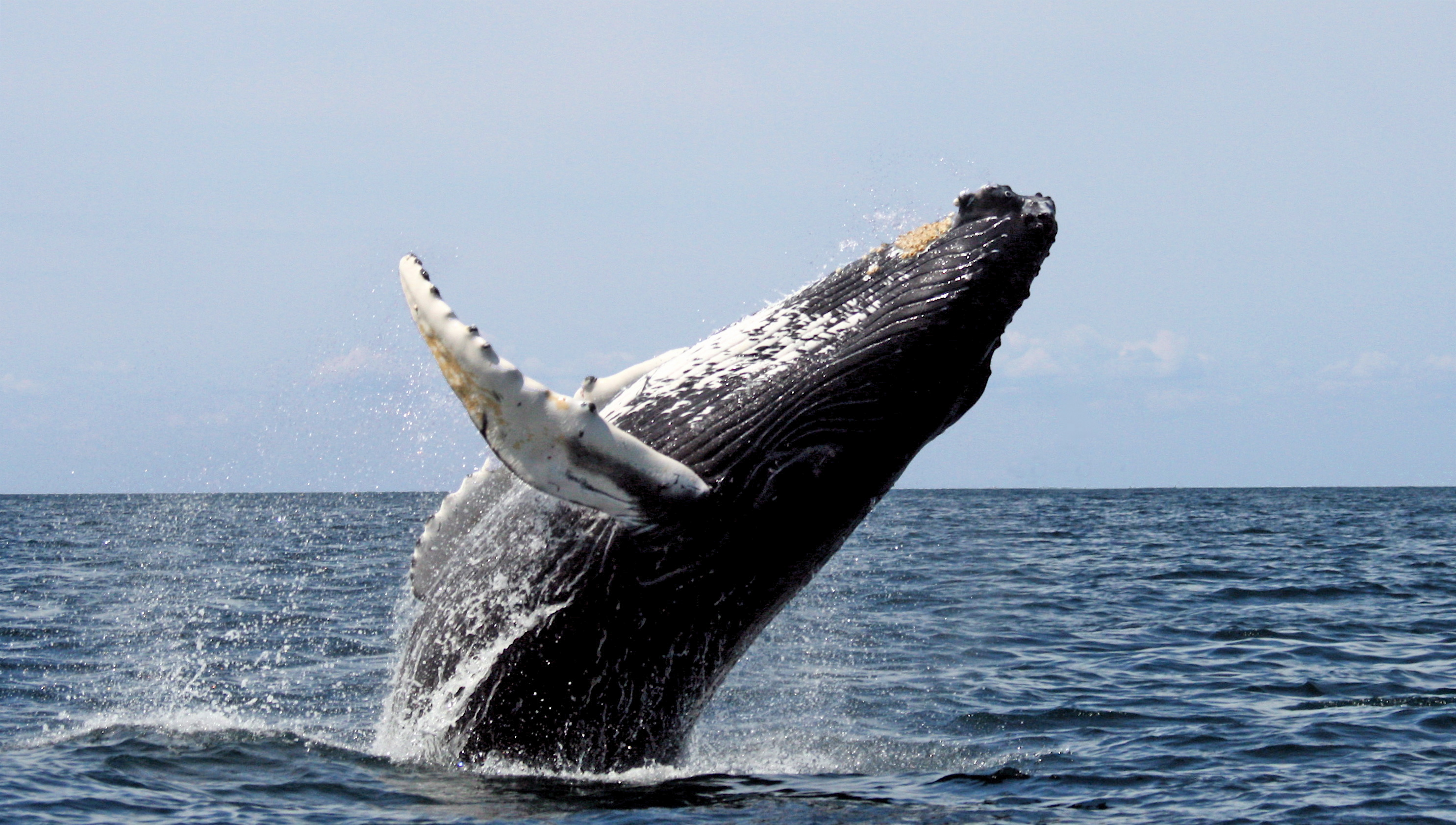 Humpback Whale, breaching, Stellwagen Bank National Marine Sanctuary